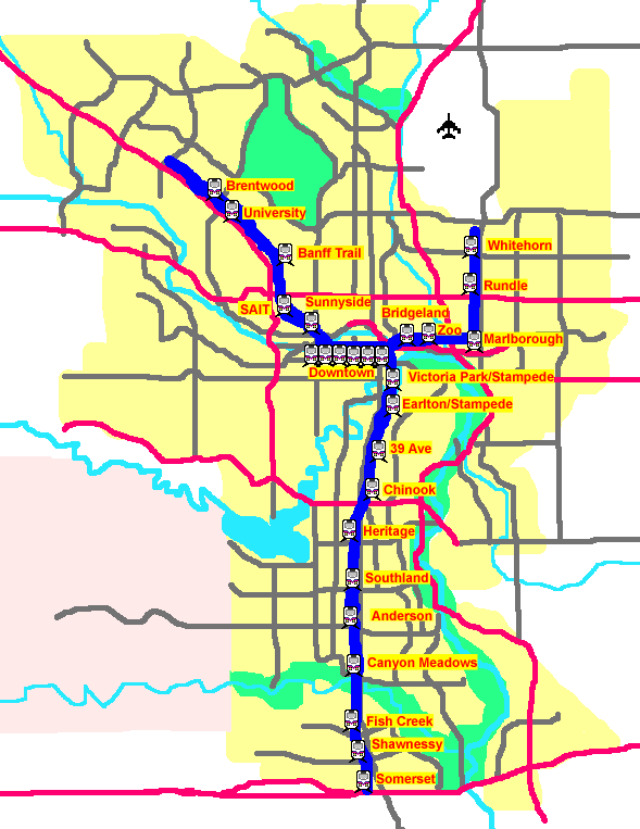 C-Train route and stations on Calgary map.